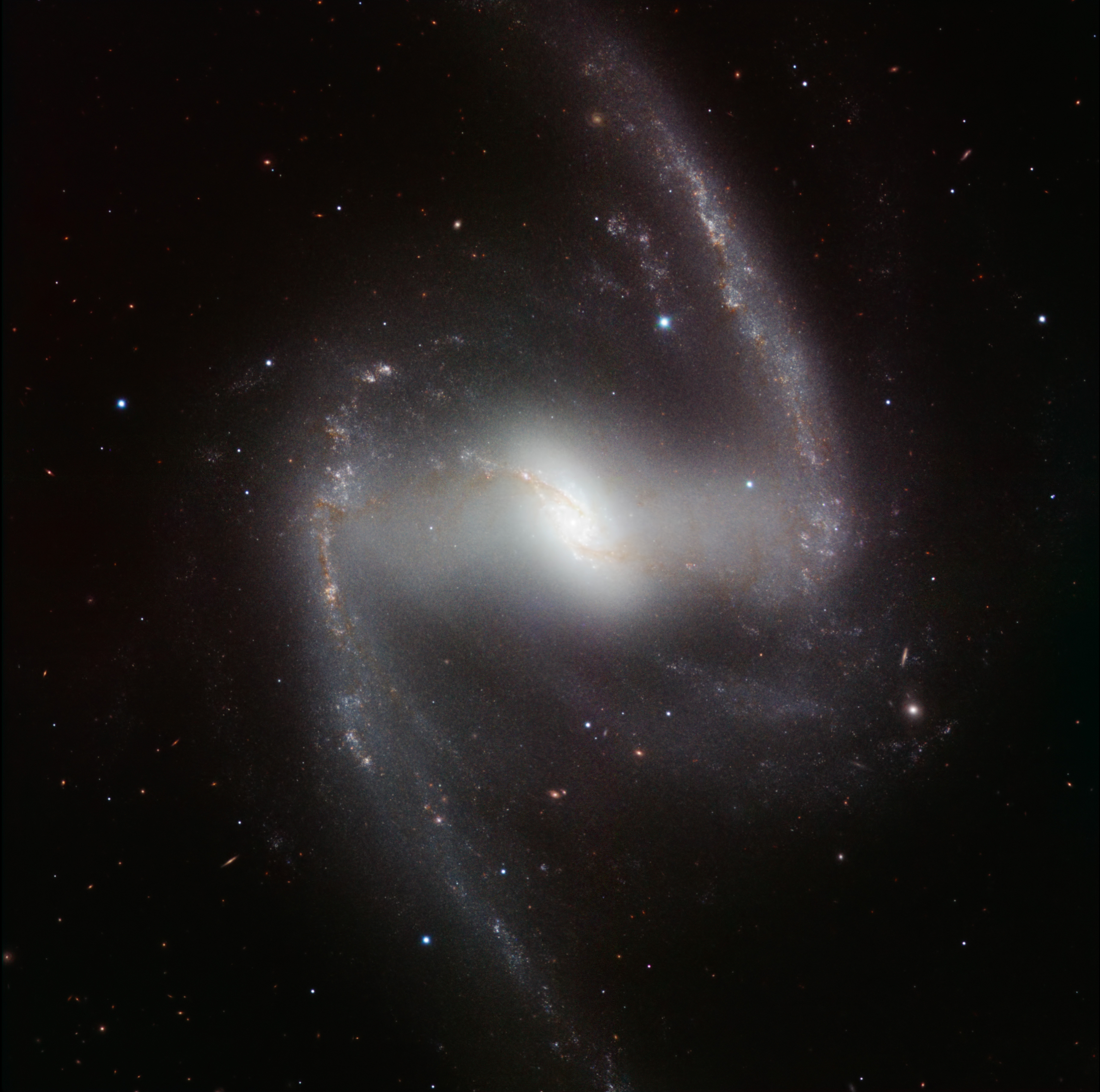 This striking new image, taken with the powerful HAWK-I infrared camera on ESO’s Very Large Telescope at Paranal Observatory in Chile, shows NGC 1365. This beautiful barred spiral galaxy is part of the Fornax cluster of galaxies, and lies about 60 million light-years from Earth. The picture was created from images taken through Y, J, H and K filters and the exposure times were 4, 4, 7 and 12 minutes respectively.